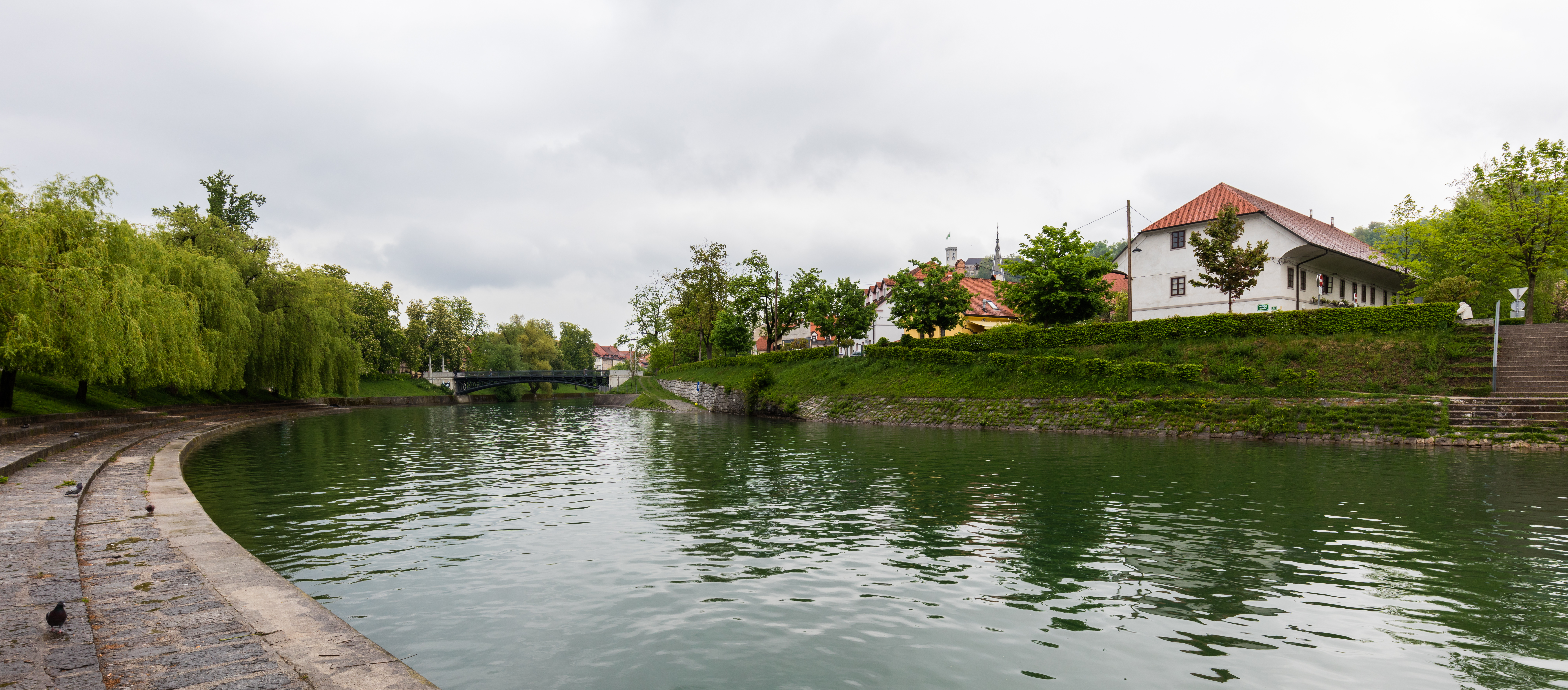 Ljubljanica river, Ljubljana, Slovenia